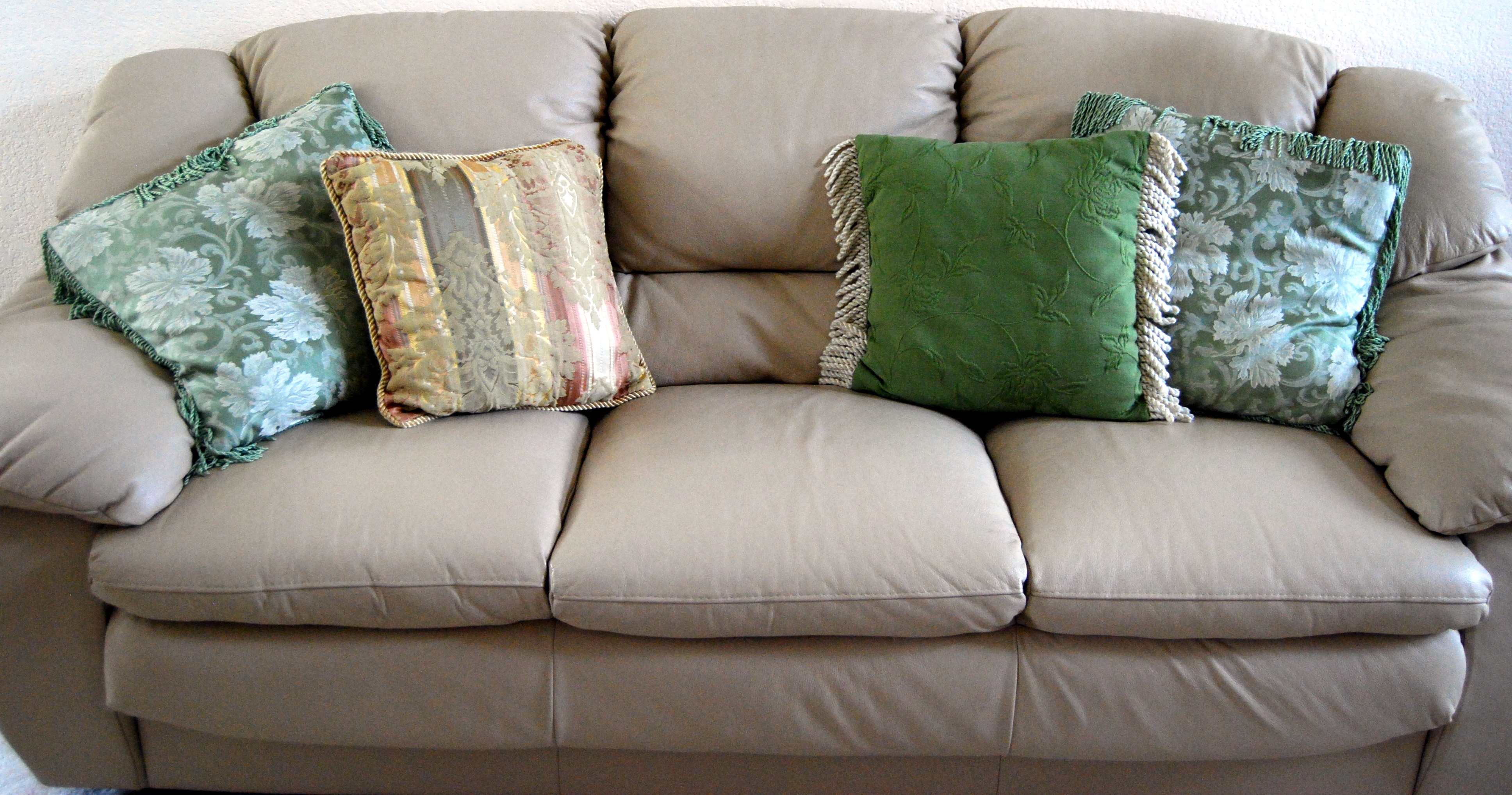 A tan sofa with decorative pillows.